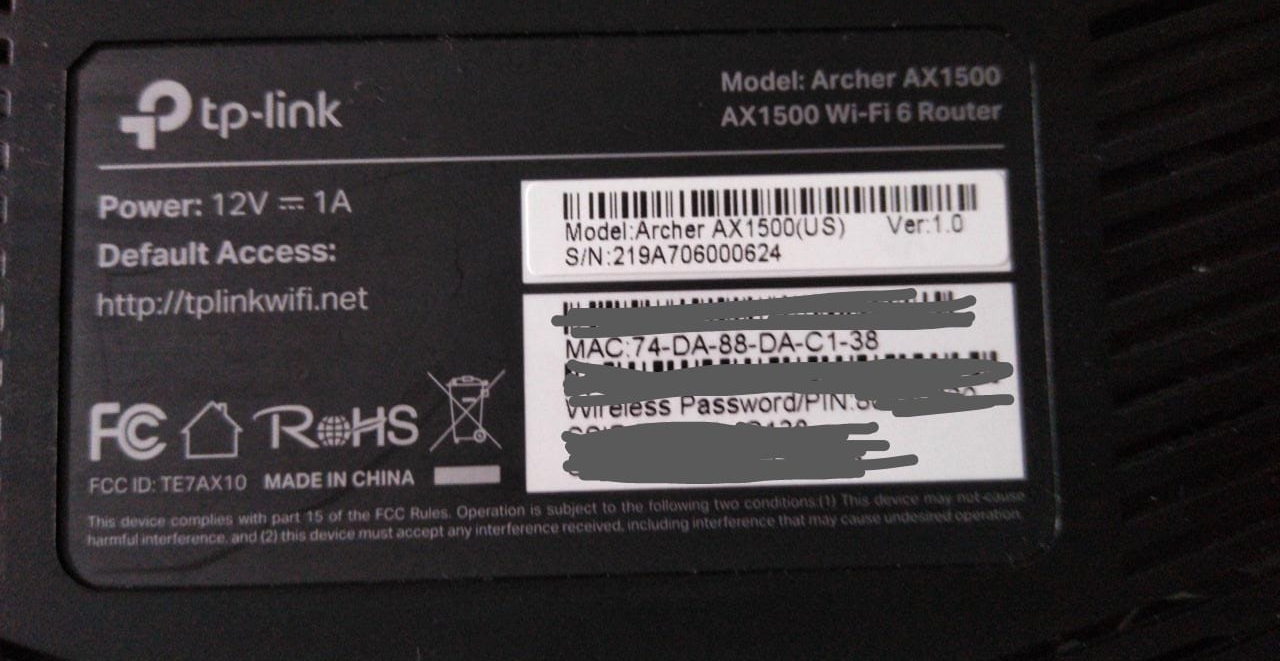 TP-Link AX1500 Wi-Fi 6 Router Specs